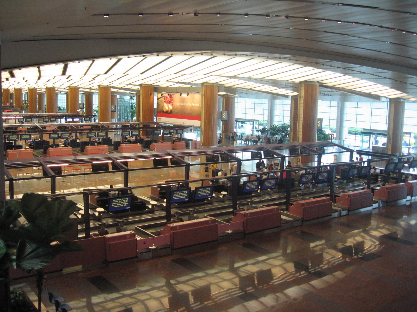 Singapore Changi Airport, Terminal 2, Departure Hall.